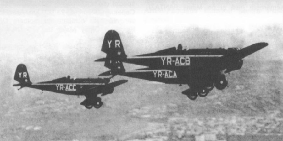 "Red Devils" aerobatics formation over Bucharest, 1936.